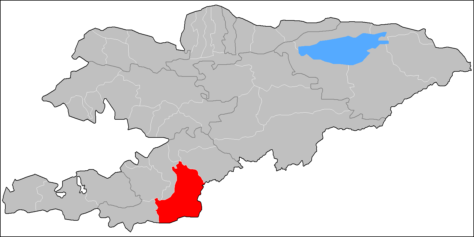 The location of the raion (district) of Alay in Kyrgyzstan. Based on Image:Kyrgyzstan raions.png